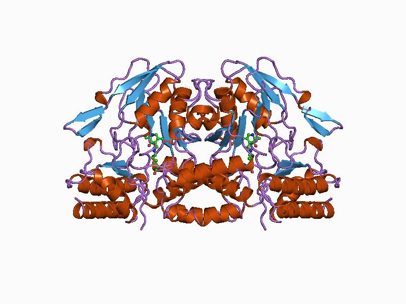 Cartoon representation of the molecular structure of protein registered with 1bjn code.